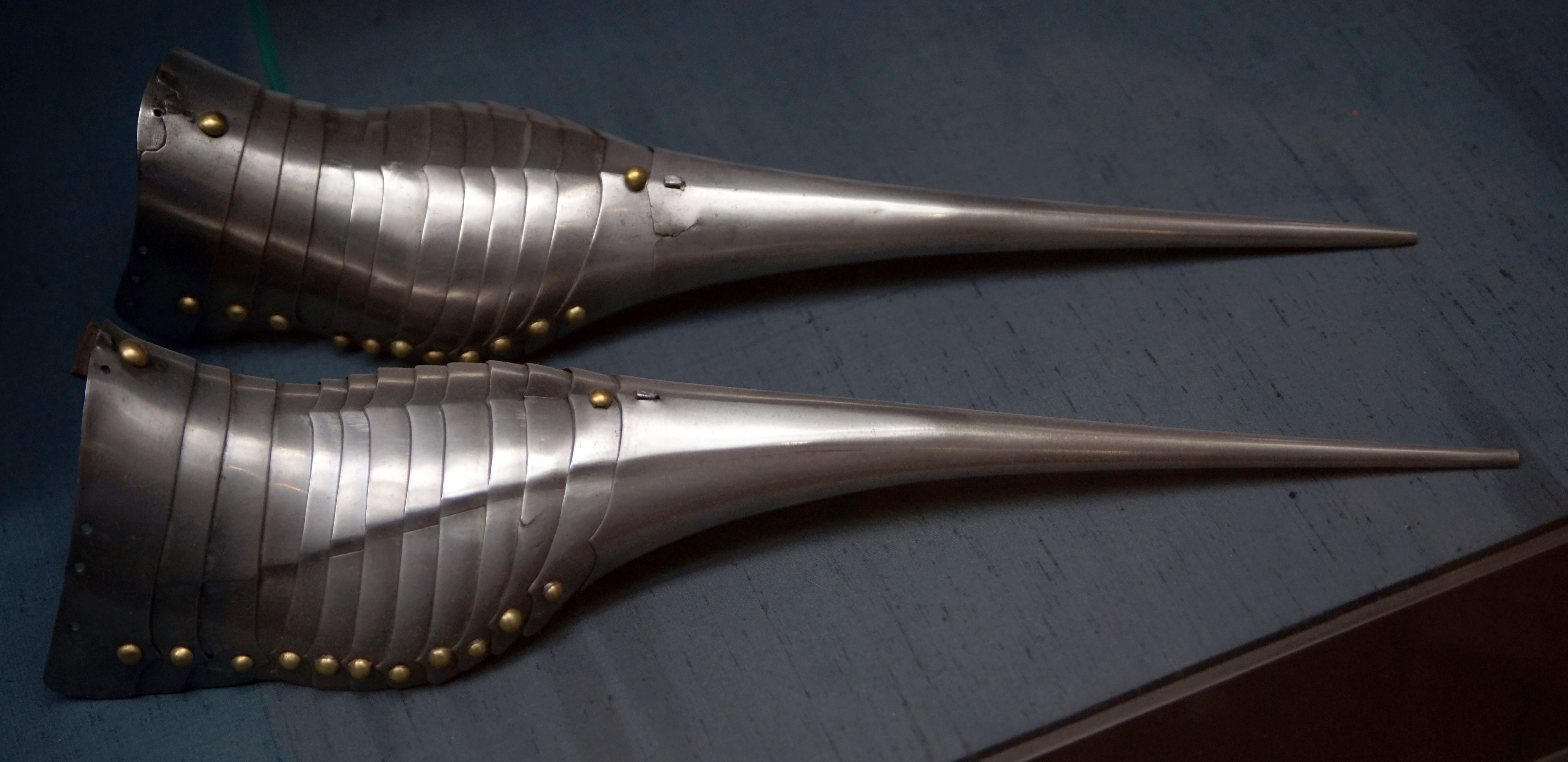 Armoured shoes of Emperor Maximilian I, part of the set of armour probably depicted in Thun fol. 33v, 67 and 67v.